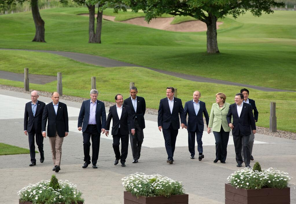 Government and international leaders walk after posing for a group photograph at the G8 Summit in Lough Erne, Northern Ireland on 18 June 2013. Pictured, from left are: Herman Van Rompuy, President of the European Council; Prime Minister Enrico Letta of Italy; Prime Minister Stephen Harper of Canada; President François Hollande of France; President Barack Obama of the United States: Prime Minister David Cameron of the United Kingdom; President Vladimir Putin of Russia; Chancellor Angela Merkel of Germany; José Manuel Barroso, President of the European Commission; and Prime Minister Shinzō Abe of Japan.